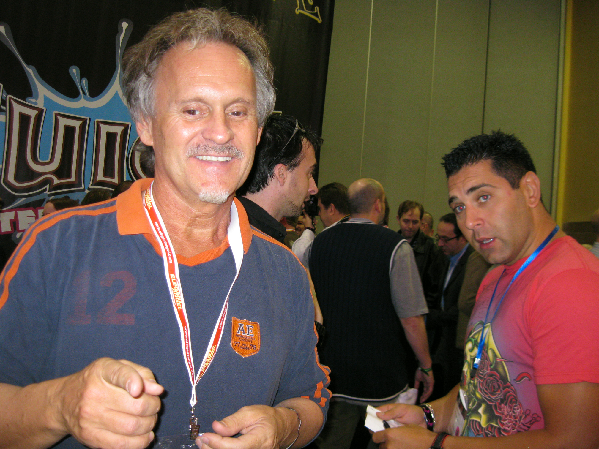 Joey Silvera and Jazz Duro